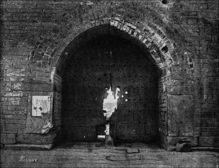 Beijing gates, crushed by russian cannons during night storm of Beijing in August 1900